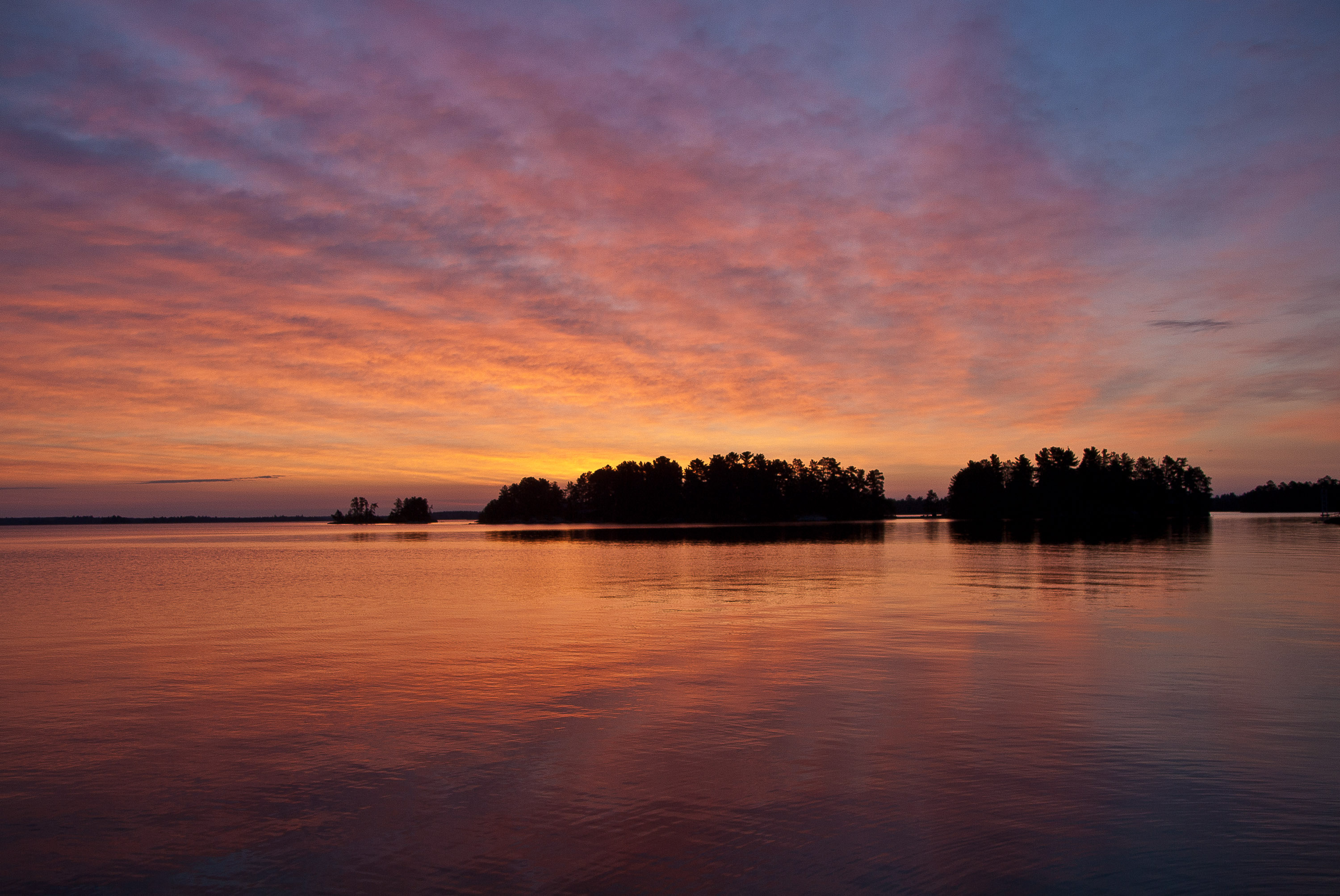 Sunrise, Rainy Lake, Voyageurs National Park, Minnesota, USA.